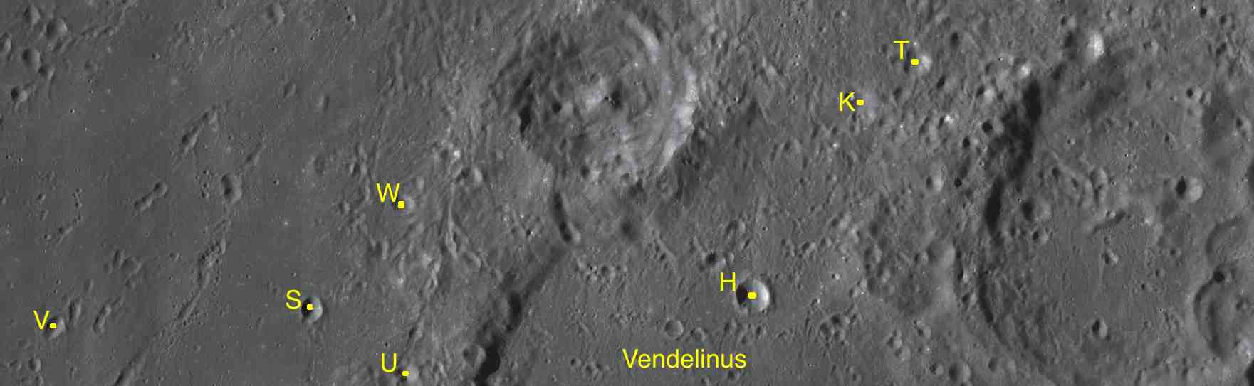 Part of the chart LAC-80 used for the presentation